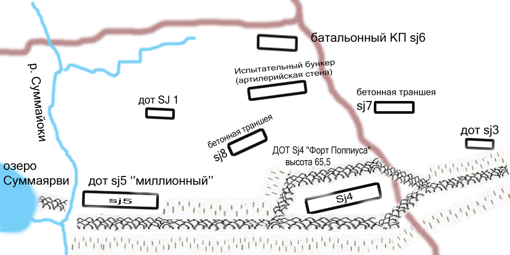 plan fortified Summayarvi - Lyahde Mannerheim Line